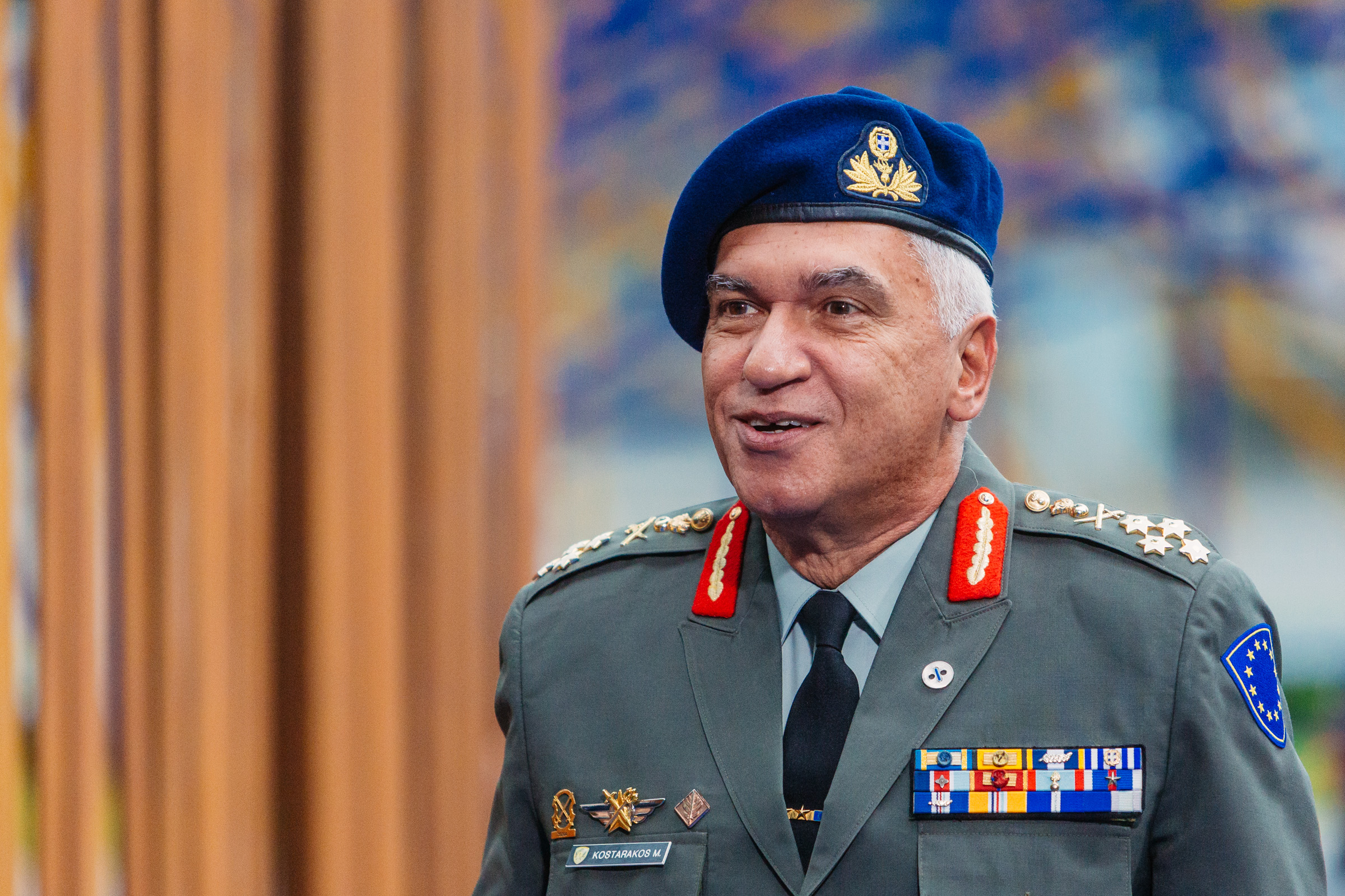 Michail Kostarakos, Chairman, European Union Military Committee, CEUMC Photo: Arno Mikkor (EU2017EE)